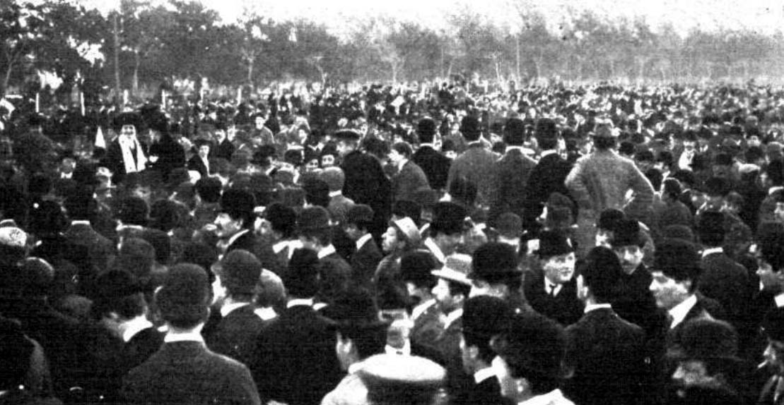 The crowd saluting the winners.